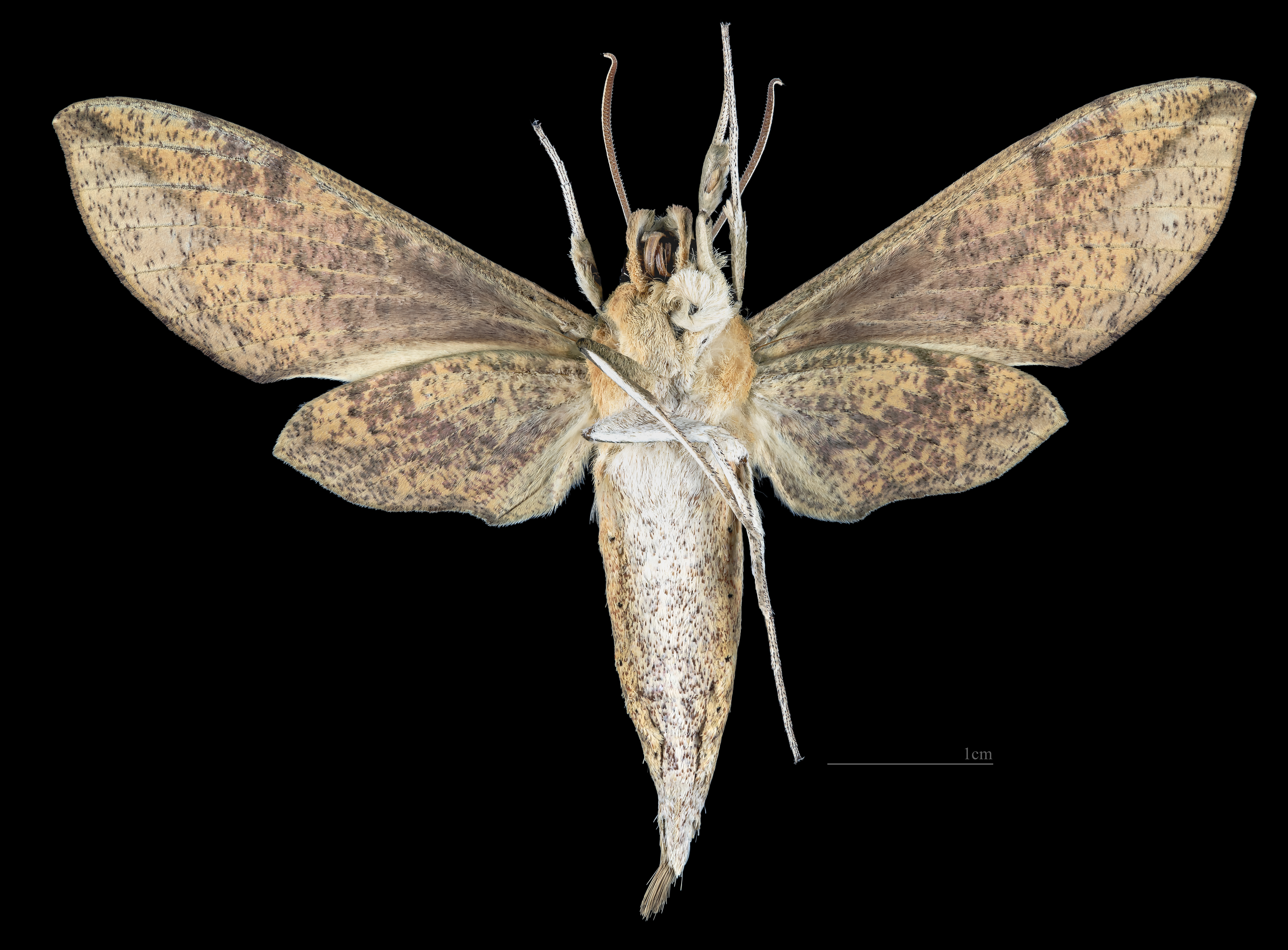 Xylophanes schausi - △ Ventral side Collection of the Mathematician Laurent Schwartz